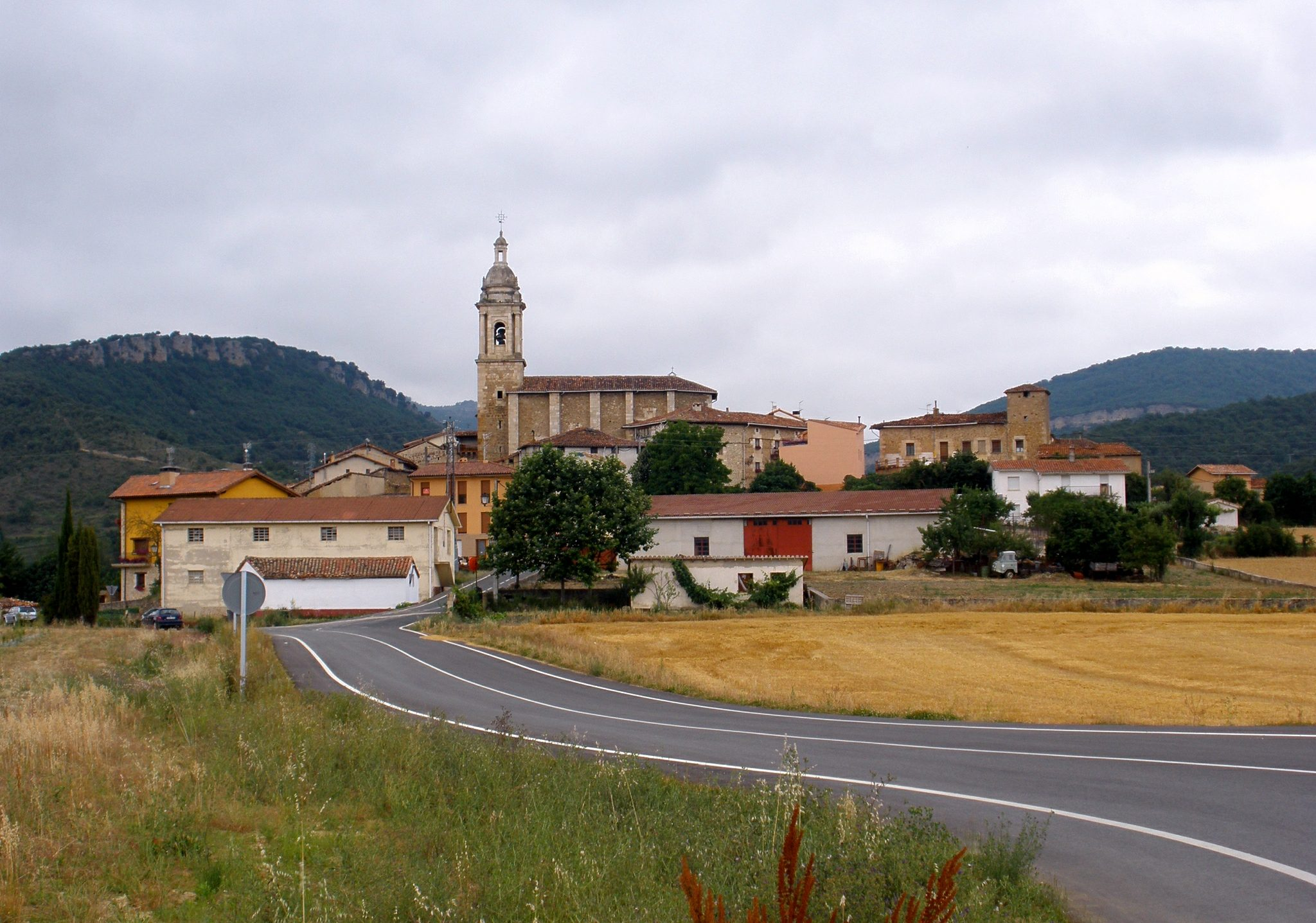 Vista de Antoñana (Álava)